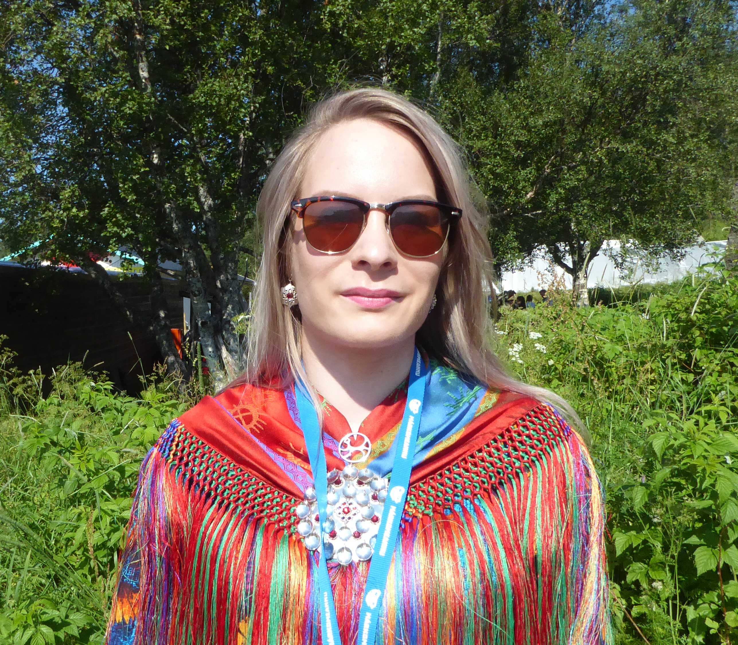 Author Saia Stueng at Sami festival Márkomeannu.